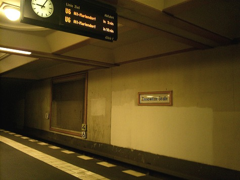 Image showing the Zinnowitzer Strasse train station on the Berlin U-Bahn train system, picture taken from a trip to Berlin in summer 2007.